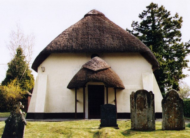 Poulner Baptist Chapel Grade 2 listed building erected in 1840.